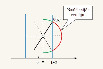 How to calculate the probability of Buffon's needle.